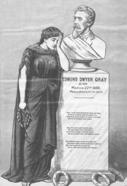 Hibernia